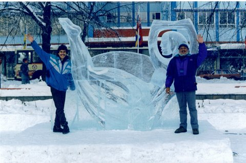 1 Abel Ramírez Águilar with ice sculpture called Gestación de un Nuevo Siglo at the 1994 Winter Olympics en Lilehammer, Norway with Mexican team captain Rafael Bernal